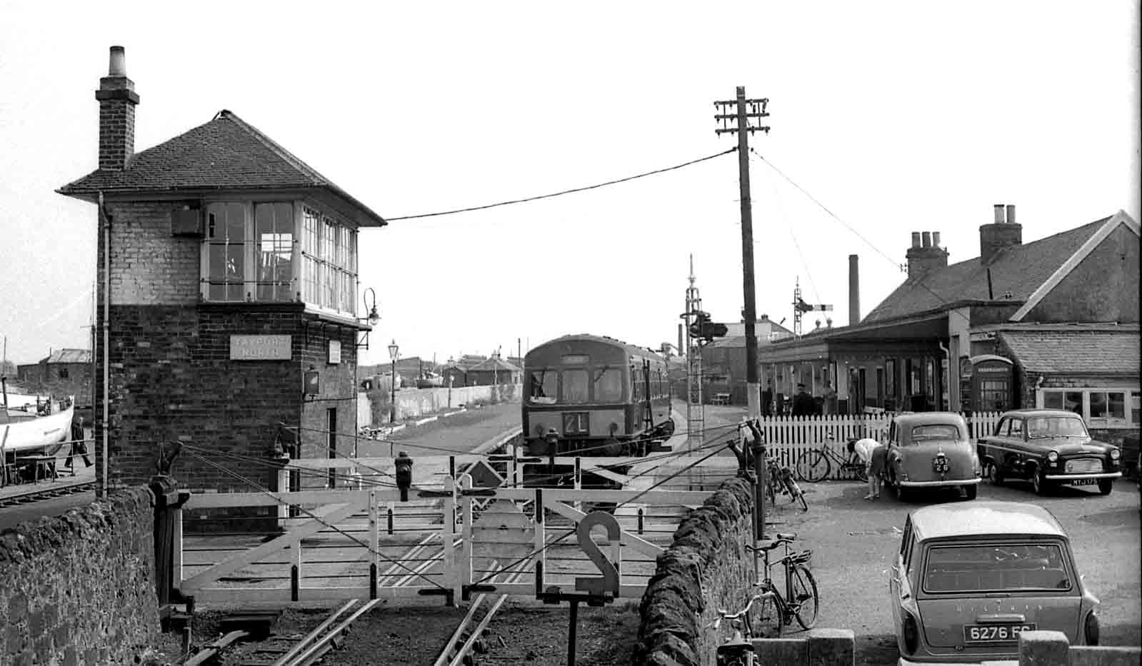 Diesel Multiple Unit (DMU) train at Tayport station, Fife, Scotland in 1958